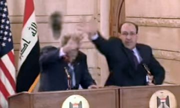 Former President Bush ducking during a press conference in the Prime Minister's Palace in Baghdad, after two shoes were thrown by Al-Baghdadia TV journalist Muntadhar al-Zaidi